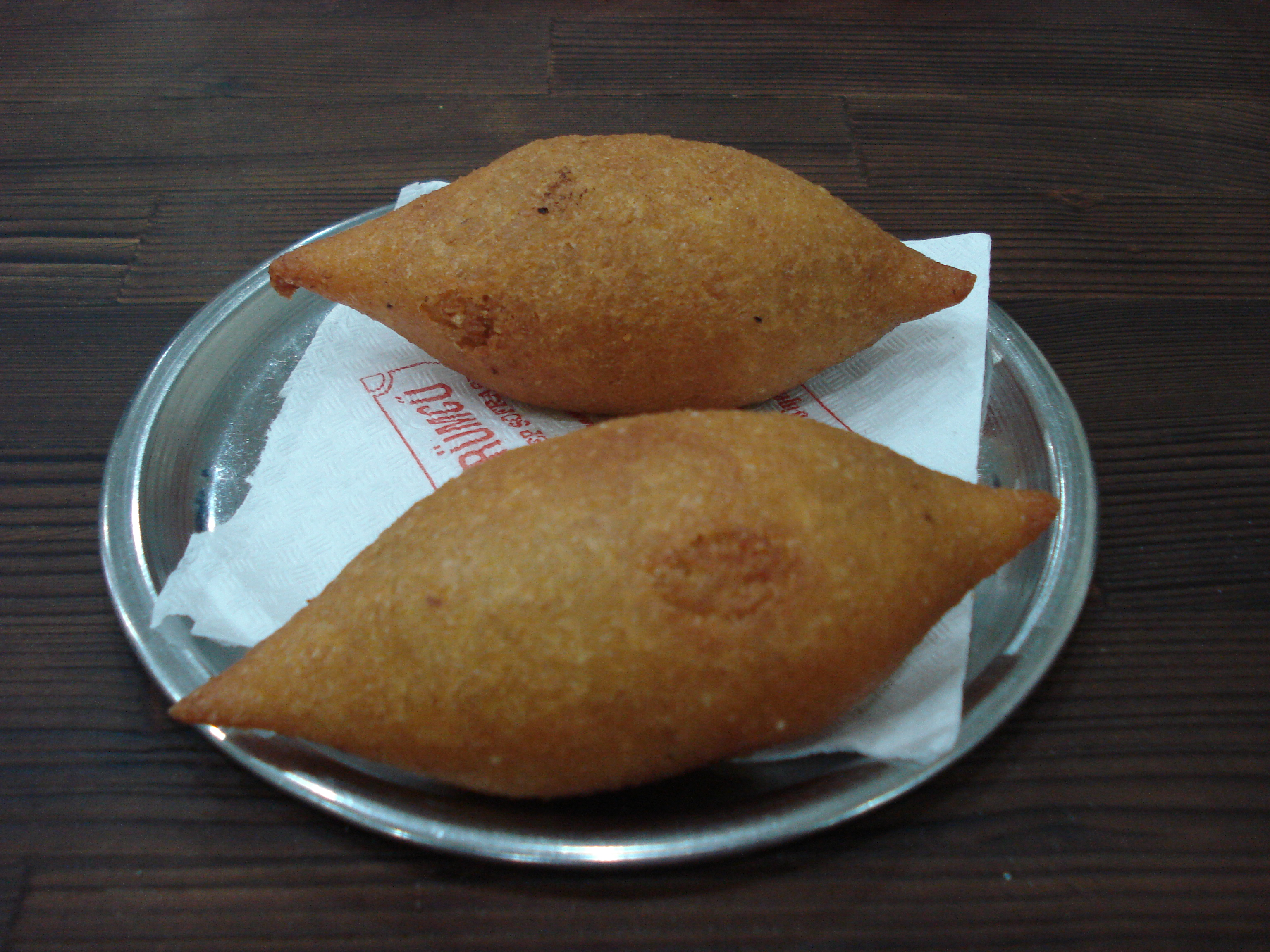 İçli köfte, or oruk, a kind of Kofta from the cuisines of Southern and Southeastern Anatolia in Turkey.